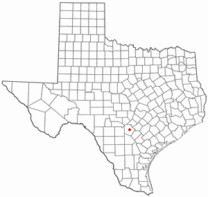 22:19, 2 July 2004 Seth Ilys 300x284 (15867 bytes) ( GFDL )